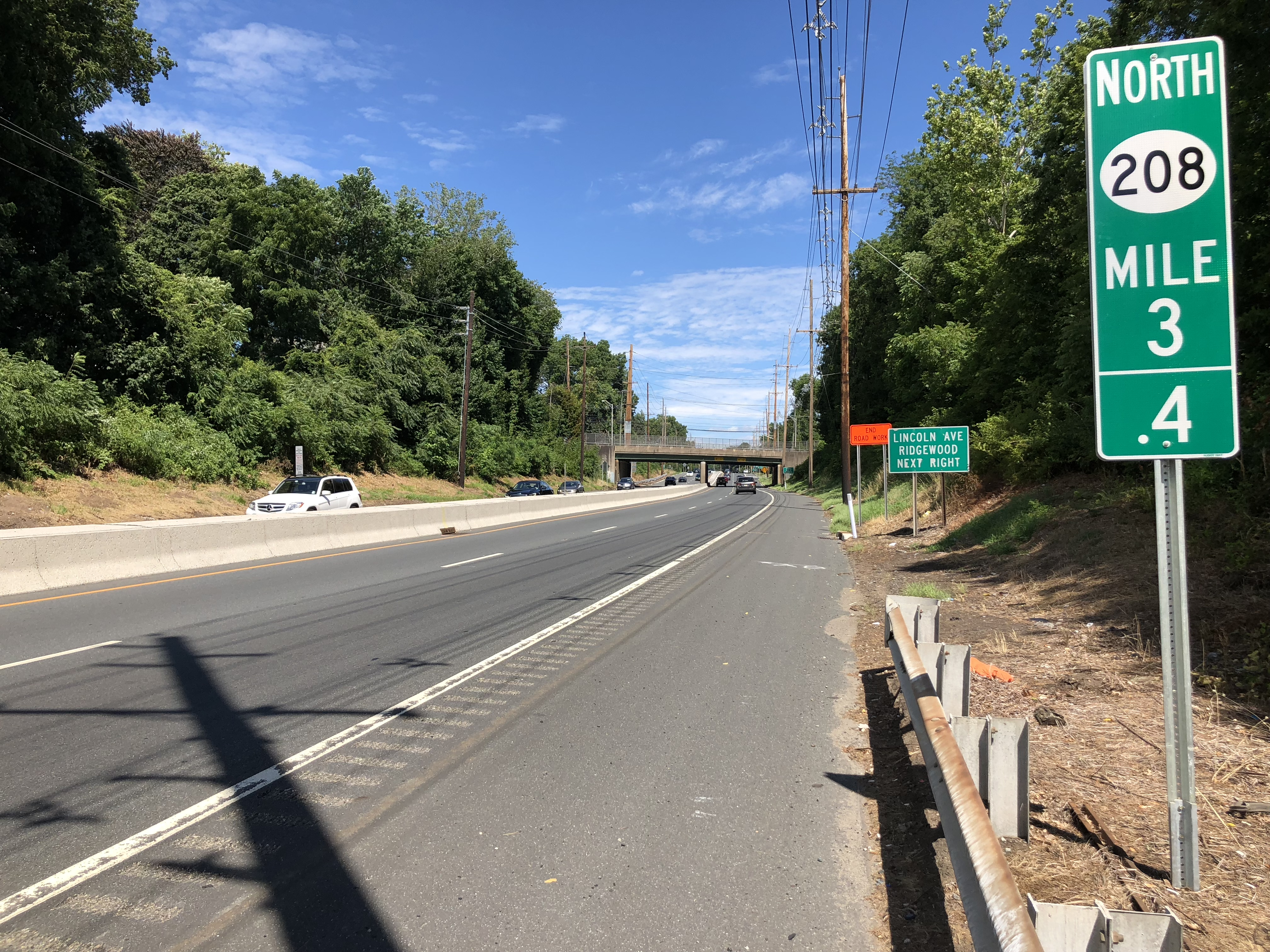 View north along New Jersey State Route 208 between Boulevard Avenue and Passaic County Route 653 (Lincoln Avenue) in Glen Rock, Bergen County, New Jersey